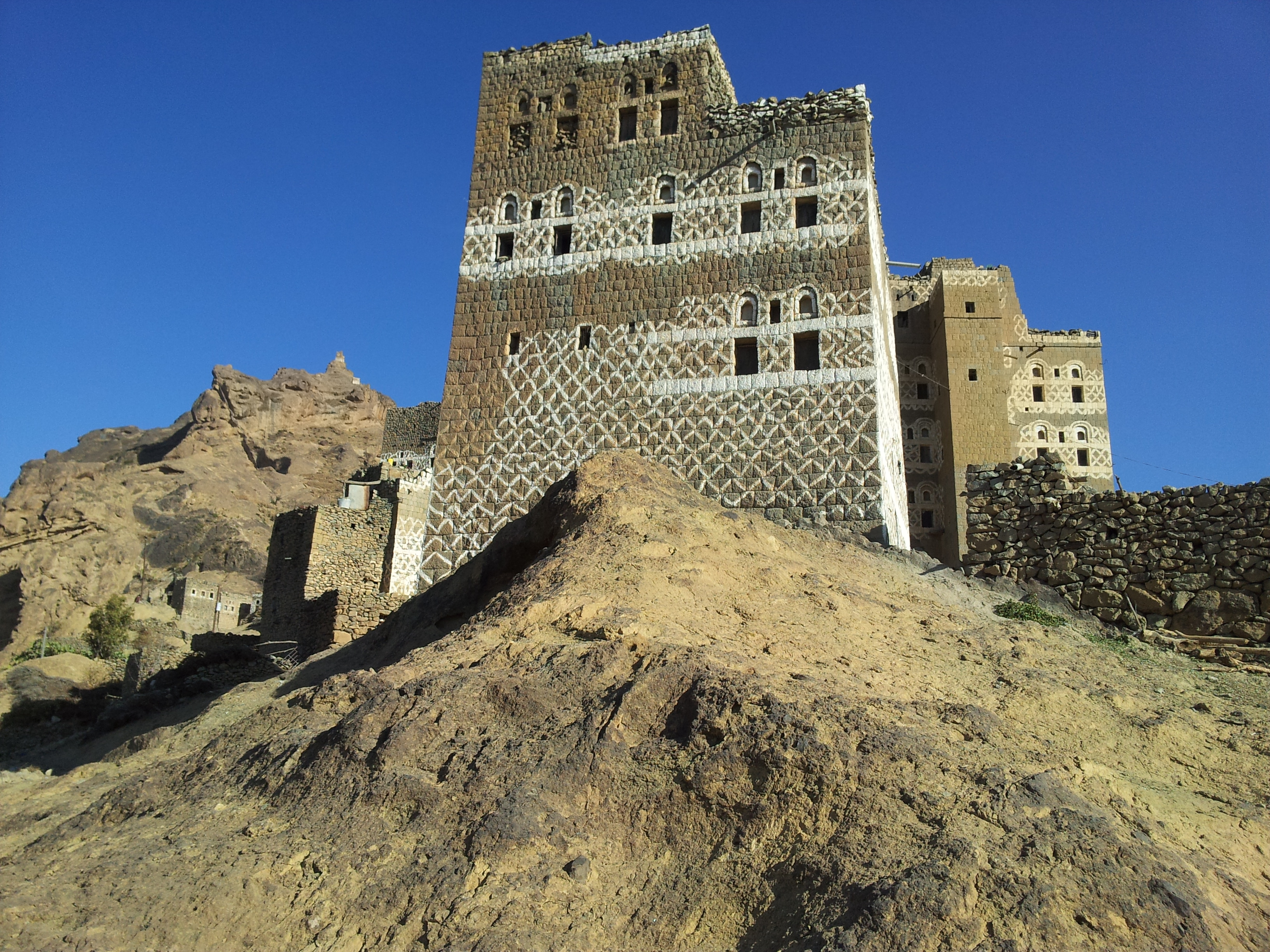 Typical old Yemeni House